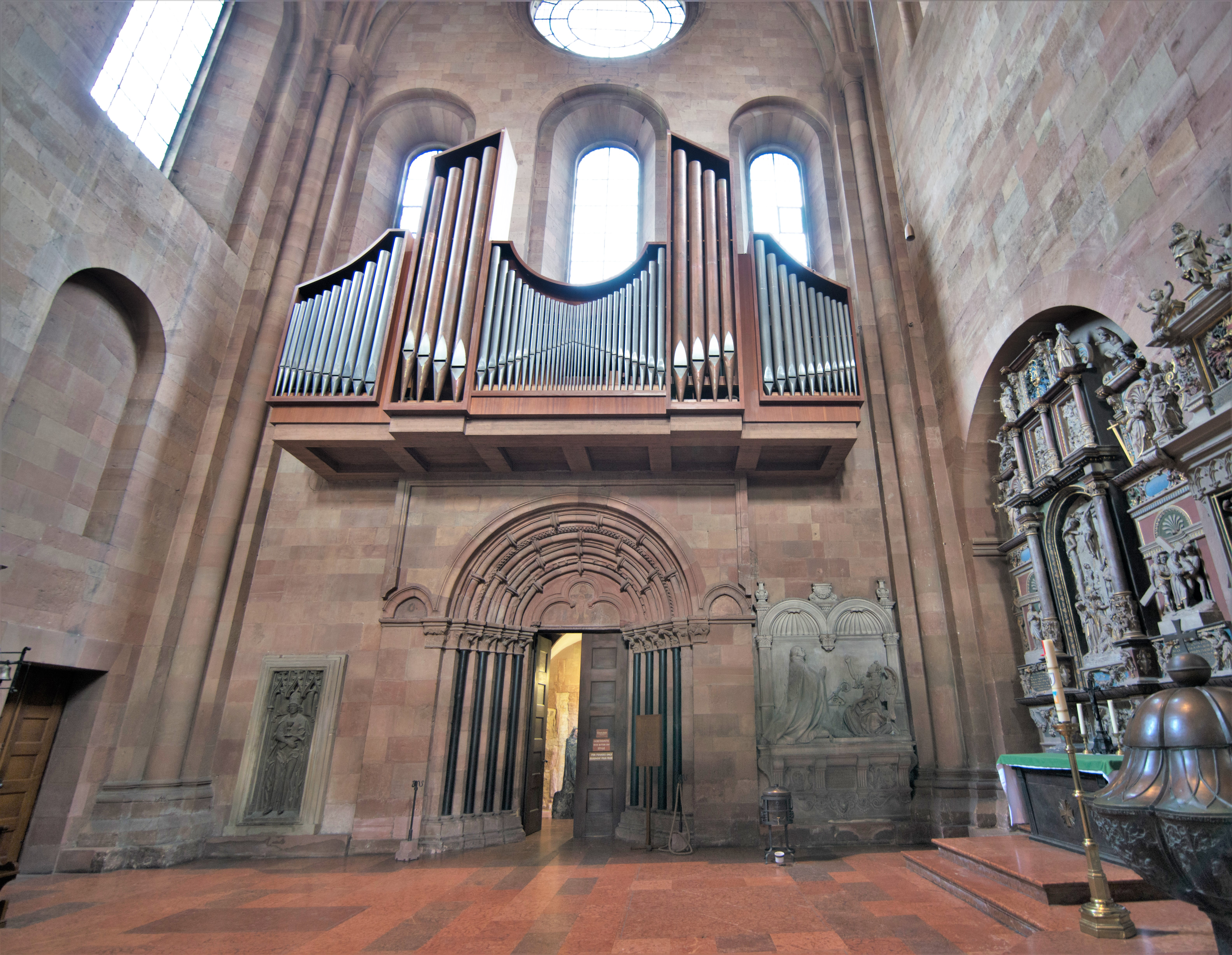 Mainz Cathedral or St. Martin's Cathedral is located near the historical center and pedestrianized market square of the city of Mainz, Germany. This 1000-year-old Roman Catholic cathedral is the site of the episcopal see of the Bishop of Mainz. Mainz Cathedral is predominantly Romanesque in style, but later exterior additions over many centuries have resulted in the appearance of various architectural influences seen today. It comprises three naves and stands under the patronage of Saint Martin of Tours. The eastern quire is dedicated to Saint Stephen. The interior of the cathedral houses tombs and funerary monuments of former powerful Electoral-prince-archbishops, or Kurfürst-Erzbischöfe, of the diocese and contains religious works of art spanning a millennium. The cathedral also has a central courtyard and statues of Saint Boniface and The Madonna on its grounds